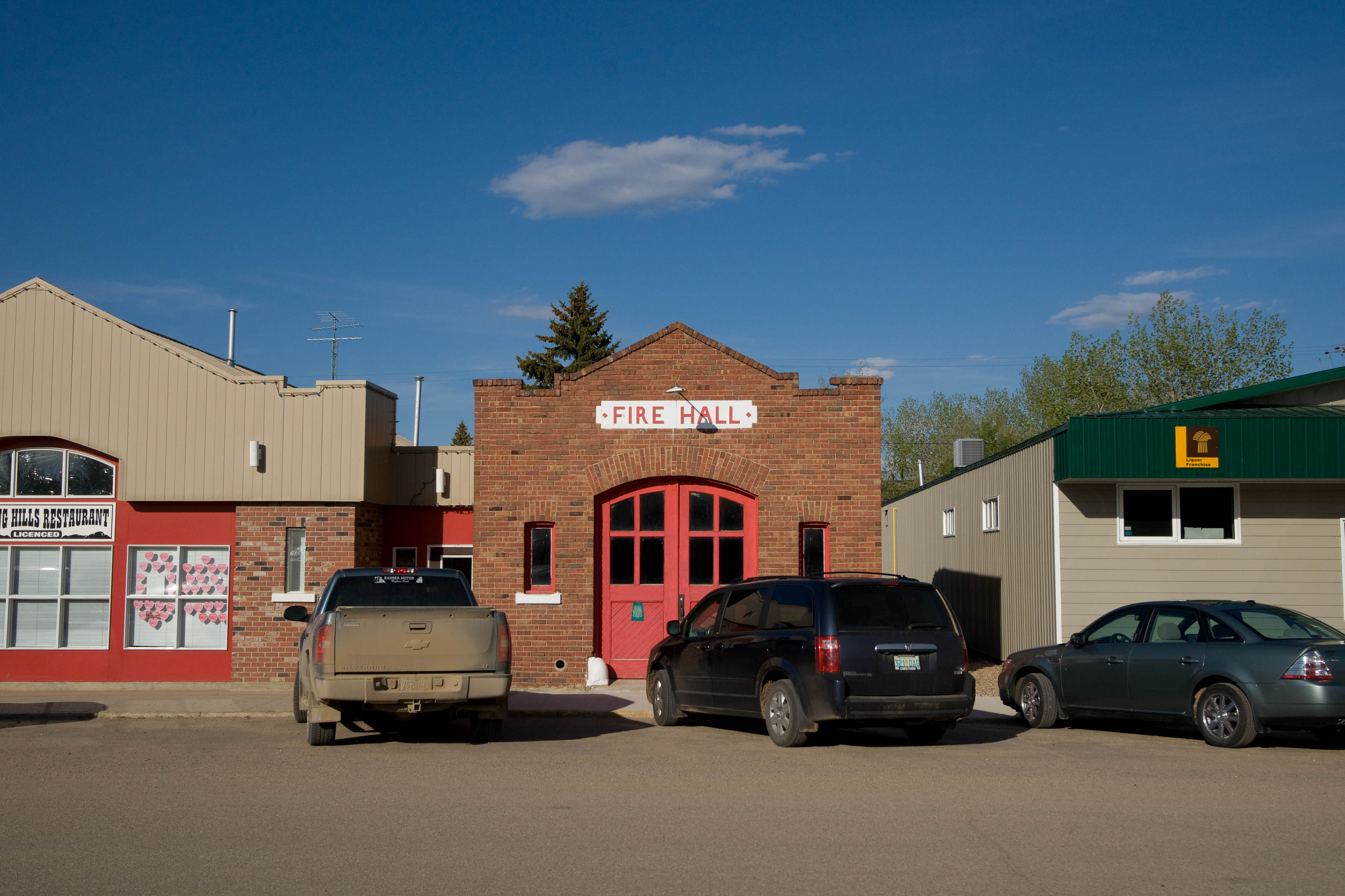 Fire hall in the town of Ogema, Saskatchewan, Canada. From